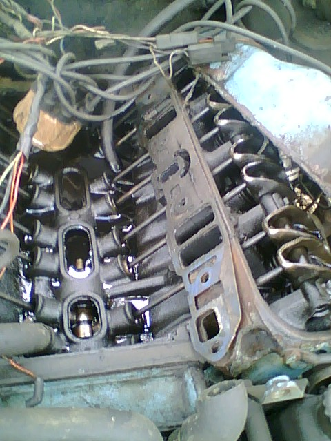 Picture of a Chrysler LA318 engine, showing the camshaft, pushrod, and rocker.